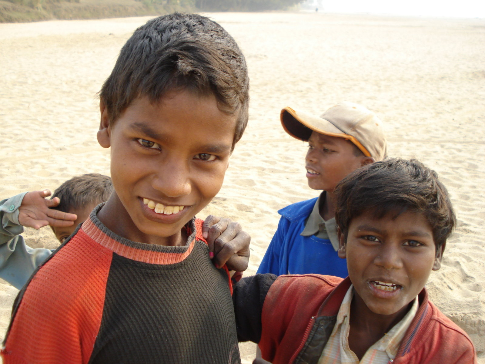 Children from a village in Bihar, India.